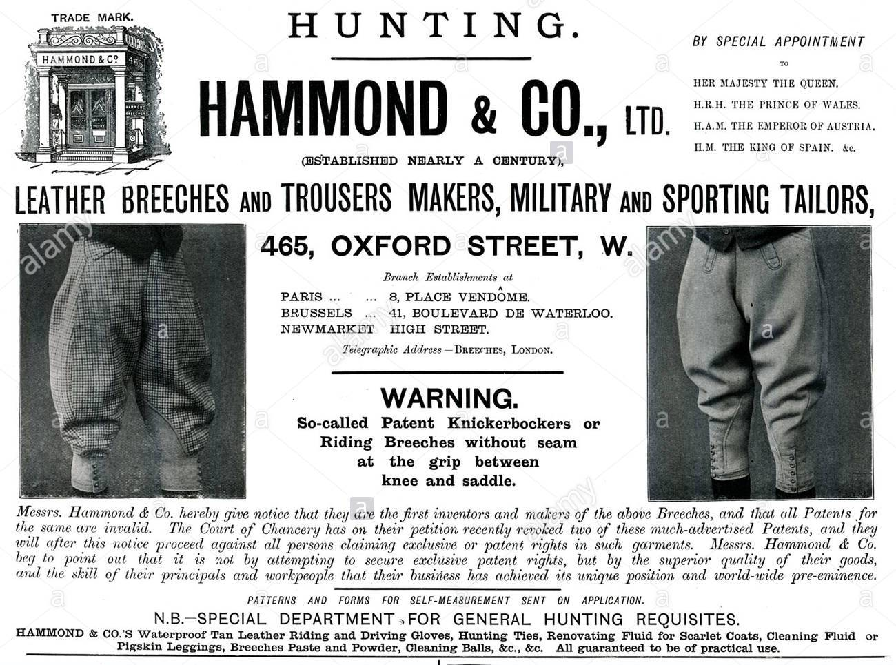 Advertisement for Hammond & Co. Military and Sporting Tailors of Oxford Street, London